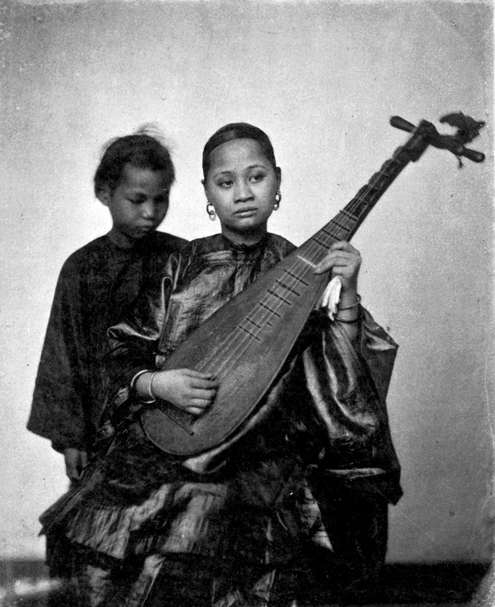 John Thomson: THE theory of music was understood by the Chinese at a very early period. It is recorded in their ancient Classics, 1 that 2000 years B.C. they used six tubes to produce the sharp notes, and six for producing the fiat ones in the scale. These tubes were originally made out of reeds or bamboo. Subsequently, when they became the standard measures of the notes, they constructed them of some kind of gem. 3 These tubes, which seem to embody the first idea of the organ pipes, became in time the standards of lineal measure, as well as of sound. I have lately seen in China a small organ, said to be ancient, and in some respects resembling the description of the tubes which Dr. Legge has supplied. It has a small mouthpiece, and a series of orifices on the pipes for producing the different notes. The Laos people in the north of Siam construct a simple organ of reeds at the present day. The Chinese have a number of plaintive and pleasing airs which they sing or perform on their string and wind instruments. They do not, however, appear to understand the principles of harmony, as a band of musicians either play in unison or produce discord ; a strife seeming to exist among the respective players as to who will get through the greatest number of notes in the shortest period of time. Bands of music are hired to dispel malignant spirits and other evil influences, and with. I should think, decided success if these spirits are endowed with musical taste, and appreciate the harmony of sound that, in the tragedy of " Macbeth," appears to have afforded Hecate and her dark sisters a fiendish delight. " And now about the cauldron sing Like elves and furies in a ring, Enchanting all that you put in I" The two illustrations represent the Chinese violin and guitar, with the performers, who are hired on festive occasions.